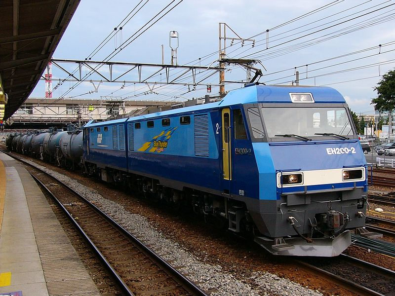 JR Freight Class EH200 electric locomotive EH200-2Panasonic Lumix DMC-FZ1